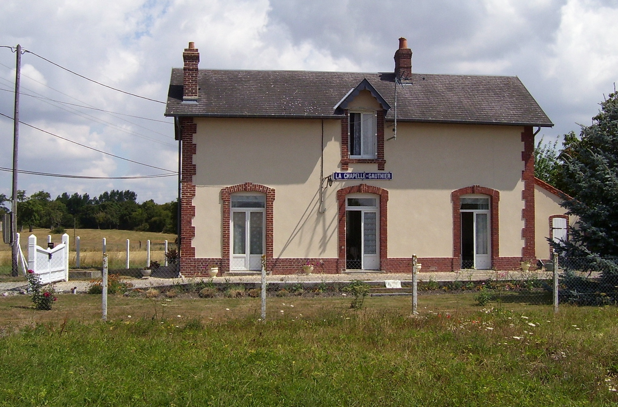 Old train station of La Chapelle-Gauthier (département Eure, Haute-Normandie, France).